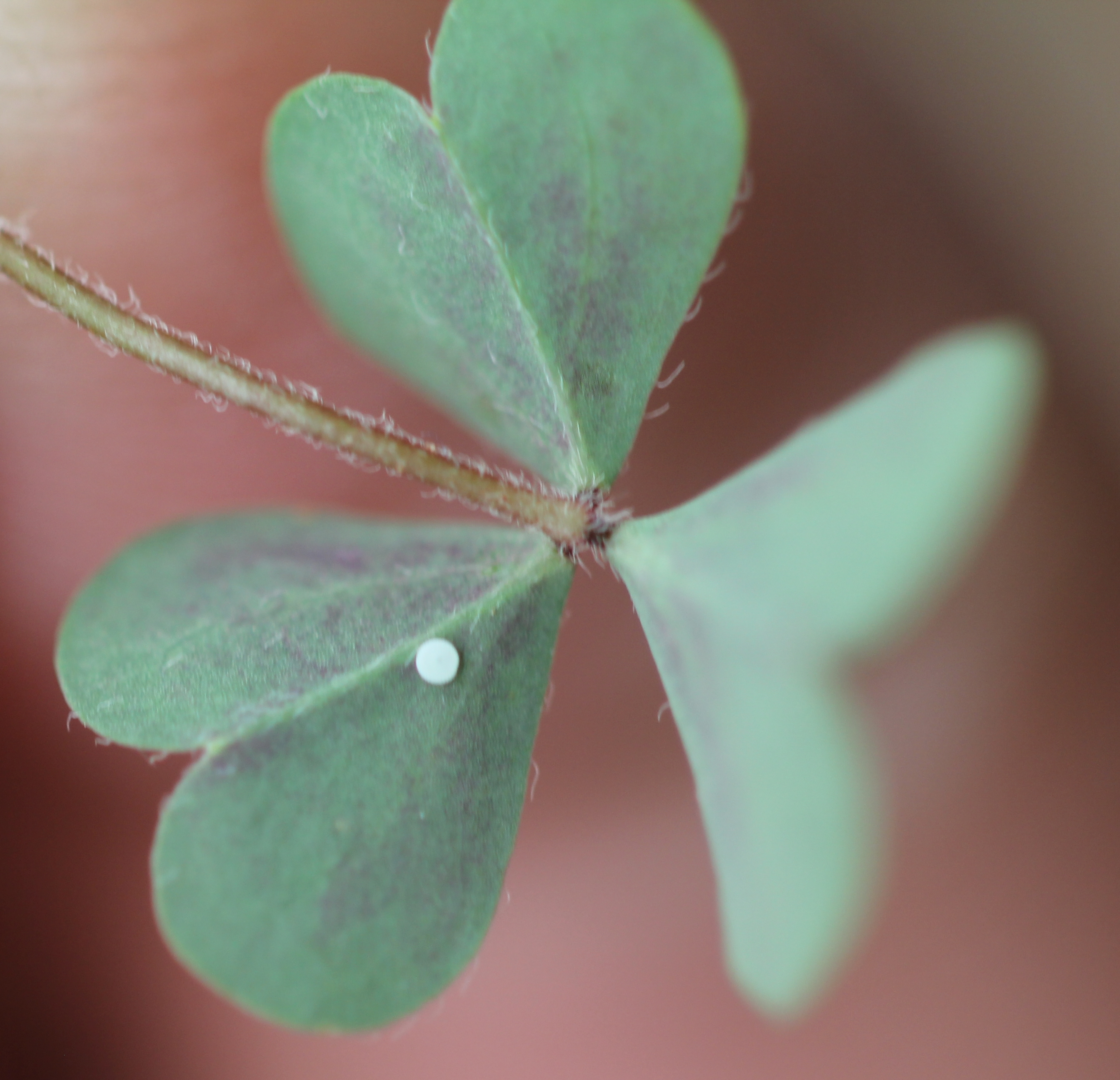 egg of pale grass blue shot at bangalore